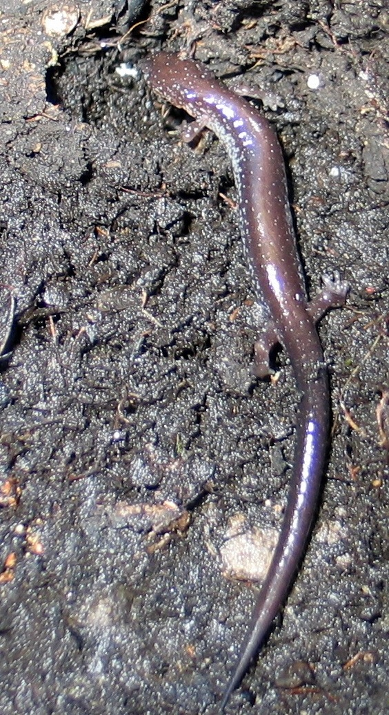 Lead phase of a Redback Salamander (Plethodon cinereus) photographed in Sainte-Anne-de-Bellevue, Québec.